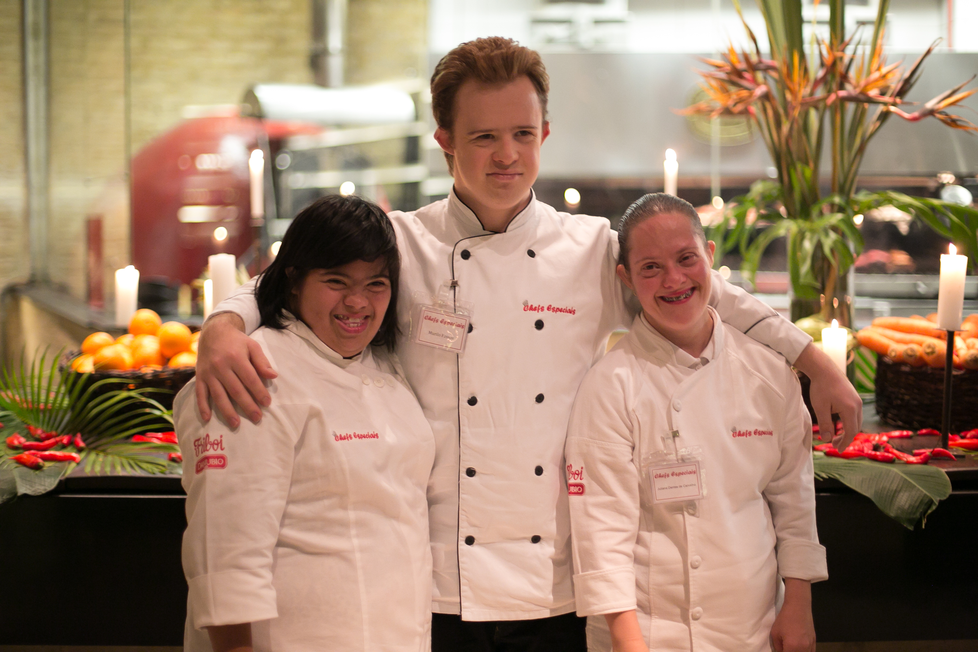 Evento - Rubaiyat